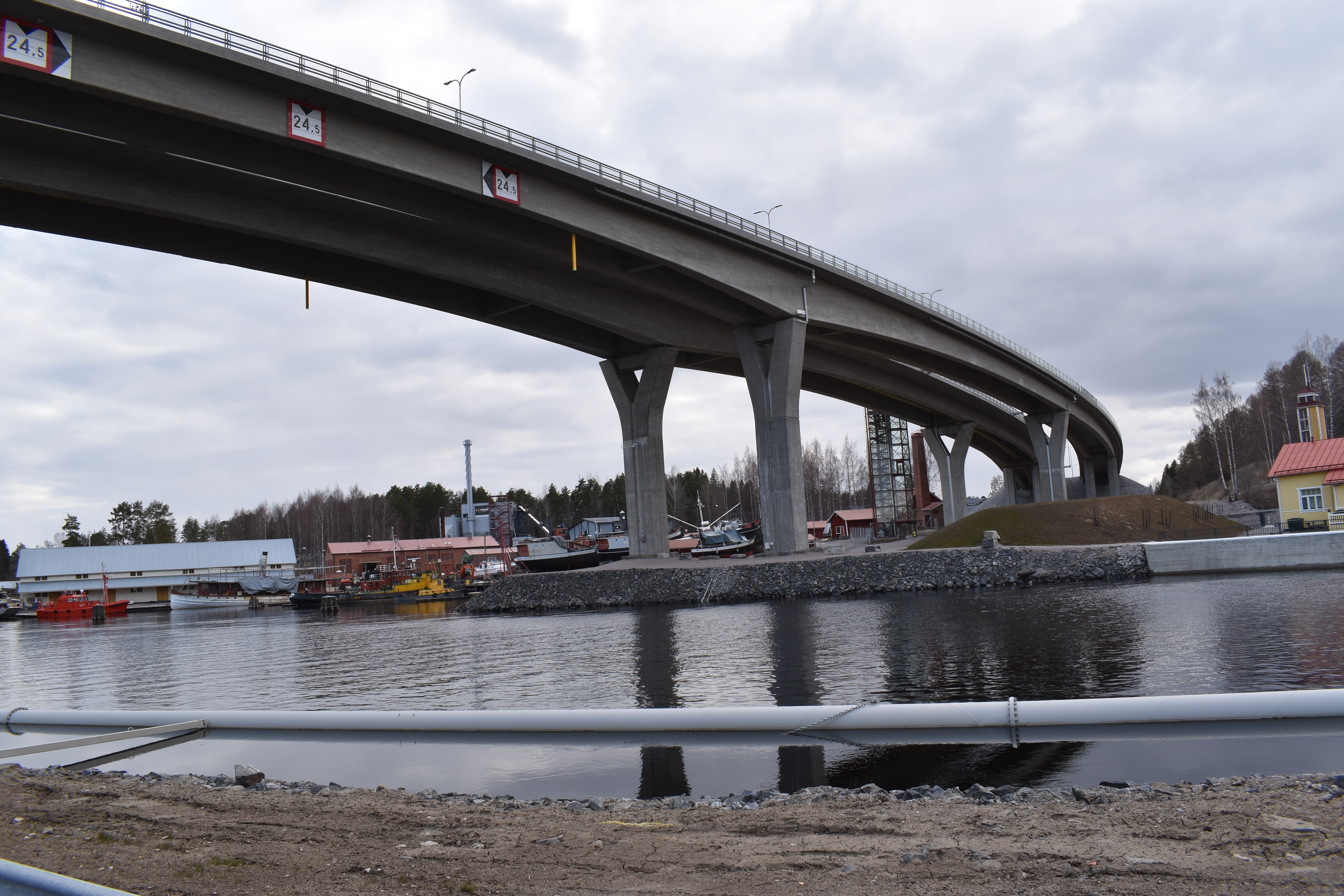 Laitaatsalmi bridges